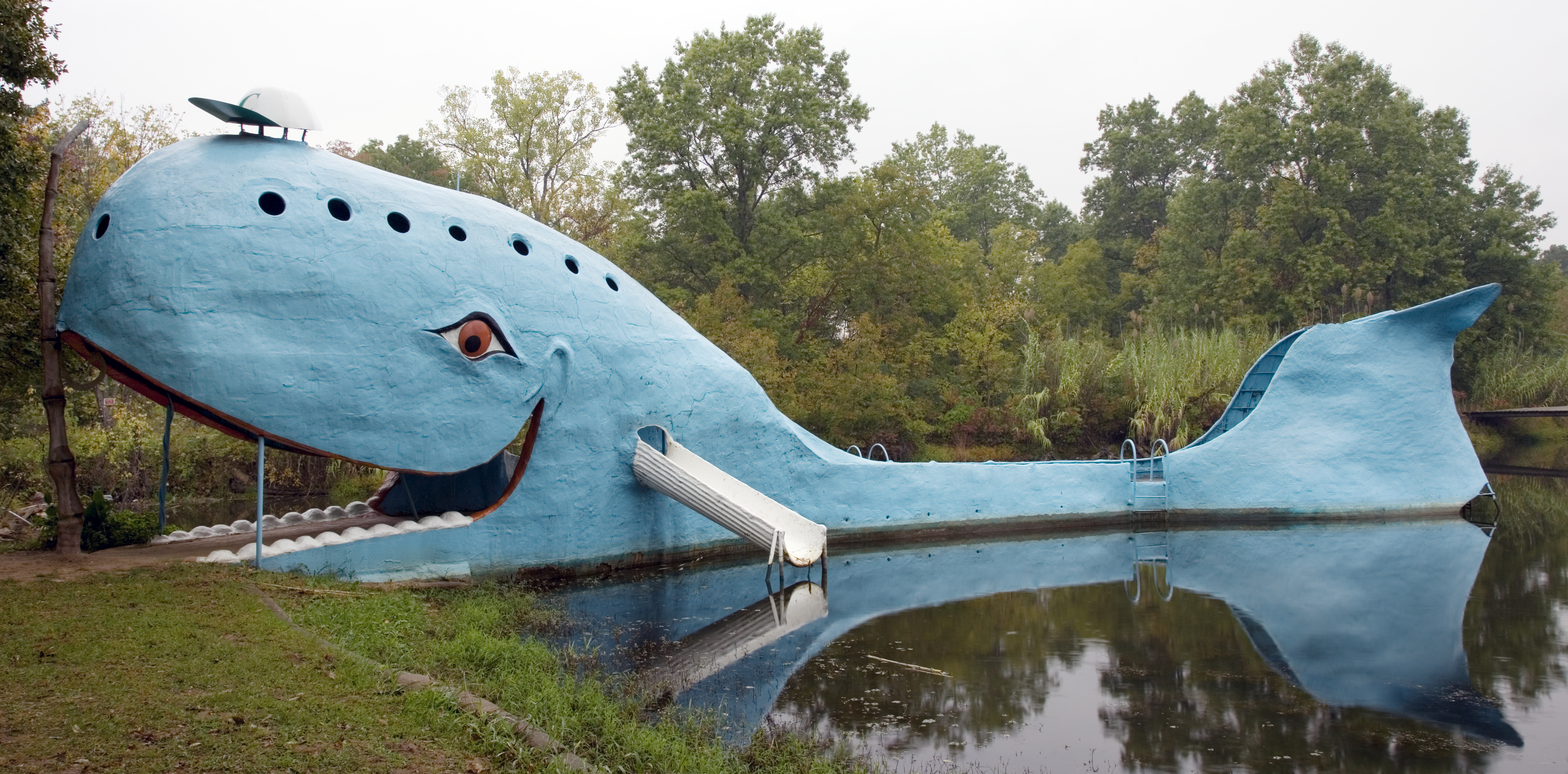 Big Blue Whale, on Route 66, Catoosa, Oklahoma by Carol M. Highsmith Metadata from the Library of Congress Title: Big Blue Whale, Route 66, Catoosa, Oklahoma Creator(s): Highsmith, Carol M., 1946-, photographer Date Created/Published: 2006 October 10. Medium: 1 photograph : digital, TIFF file, color. Reproduction Number: LC-DIG-highsm-04004 (original digital file) Rights Advisory: No known restrictions on publication. Call Number: LC-DIG-highsm- 04004 (ONLINE) [P&P] Repository: Library of Congress Prints and Photographs Division Washington, D.C. 20540 USA Notes: The Blue Whale of Catoosa is a waterfront structure, located just east of the town of Catoosa, Oklahoma, and it has become one of the most recognizable attractions on old Route 66. Hugh Davis built the Blue Whale in the early 1970s as a surprise anniversary gift to his wife Zelta, who collected whale figurines. The Blue Whale and its pond became a favorite swimming hole for both locals and travelers along Route 66 alike. Title, date, and subjects provided by the photographer. Credit line: Carol M. Highsmith's America, Library of Congress, Prints and Photographs Division. Gift and purchase; Carol M. Highsmith; 2009; (DLC/PP-2010:031). Forms part of: Carol M. Highsmith's America Project in the Carol M. Highsmith Archive. Subjects: United States--Oklahoma--Catoosa. Big Blue Whale. Route 66. Catoosa. America. Format: Digital photographs--Color--2000-2010. Collections: Highsmith (Carol M.) Archive Part of: Highsmith, Carol M., 1946- Carol M. Highsmith Archive. Bookmark This Record